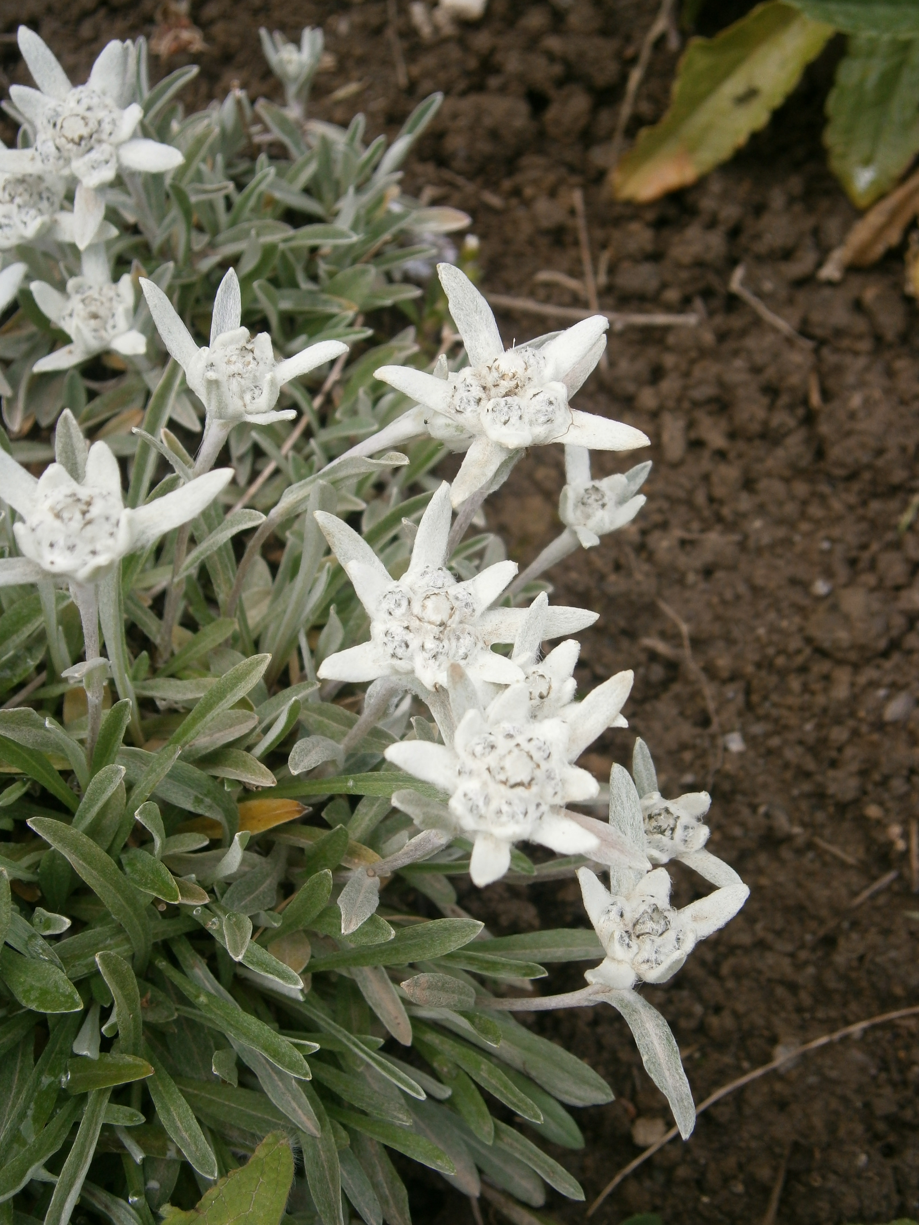 Leontopodium kamtschaticum in the Jardin Botanique Alpin du Lautaret